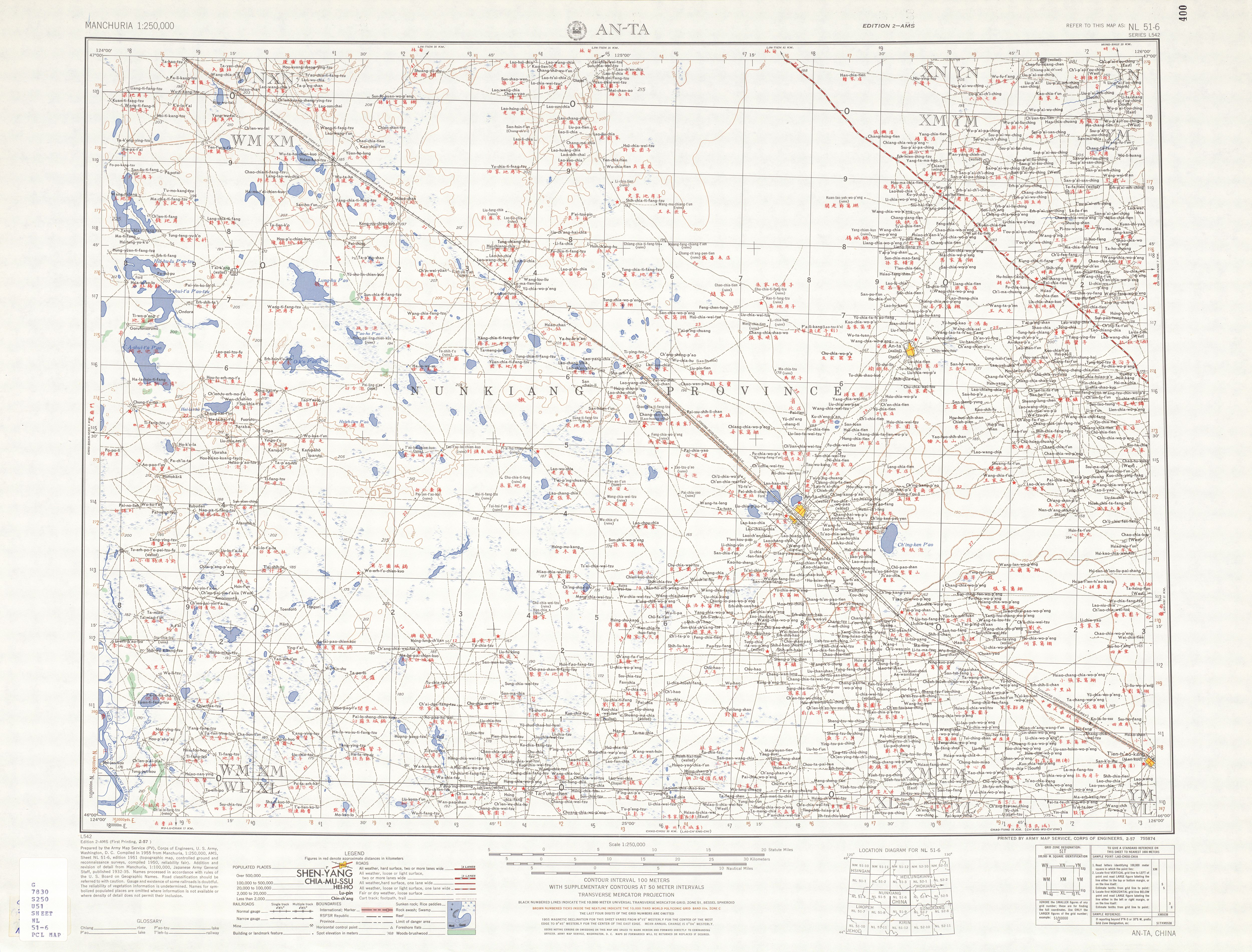 Manchuria AMS Topographic Maps